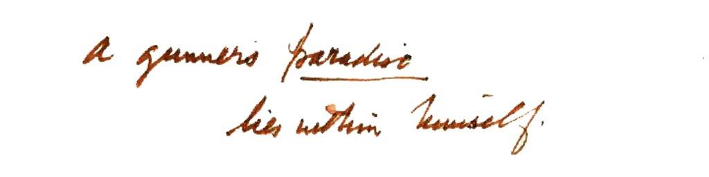 paradise quote by George Bird Evans